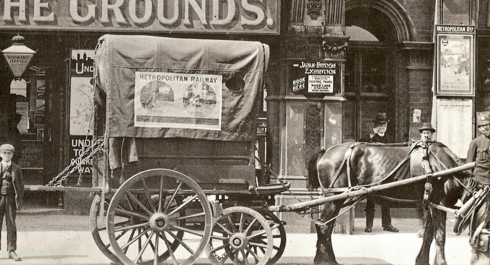 A horse-drawn wagon owned by the Metropolitan Railway